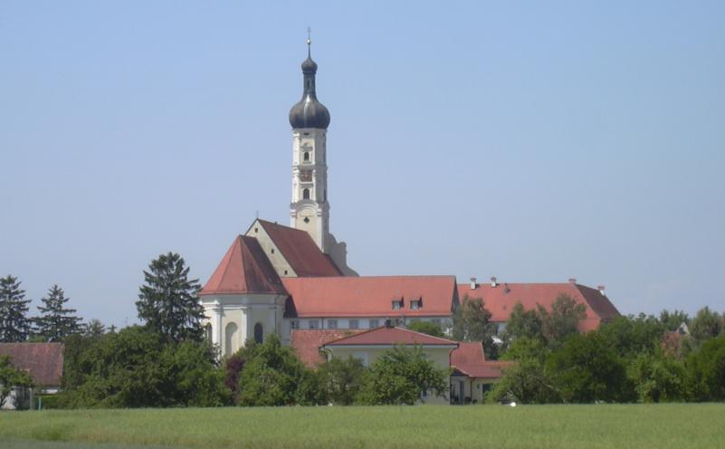 Obermedlingen, view of the former Dominican priory and Church of the Assumption from east.